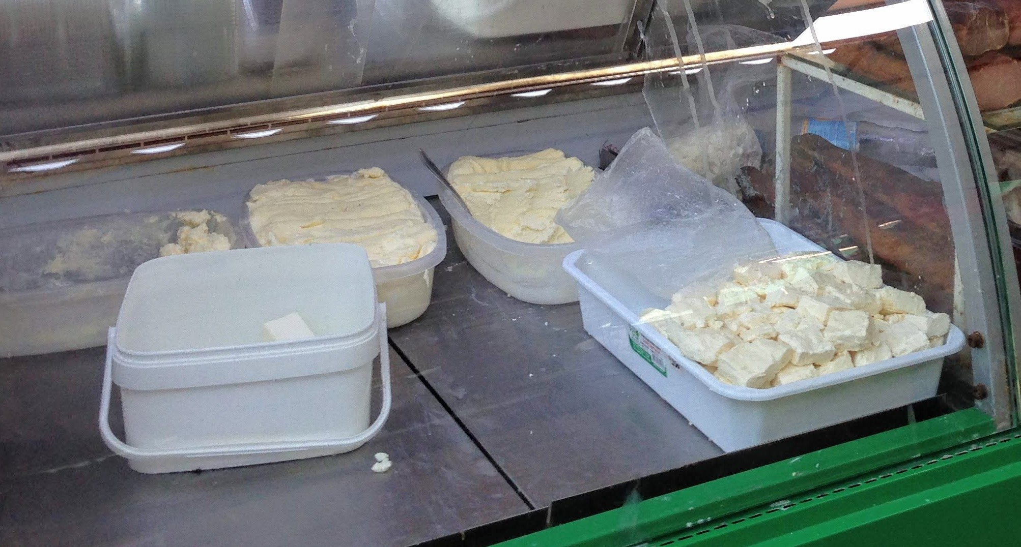 Kaymak from Uzice